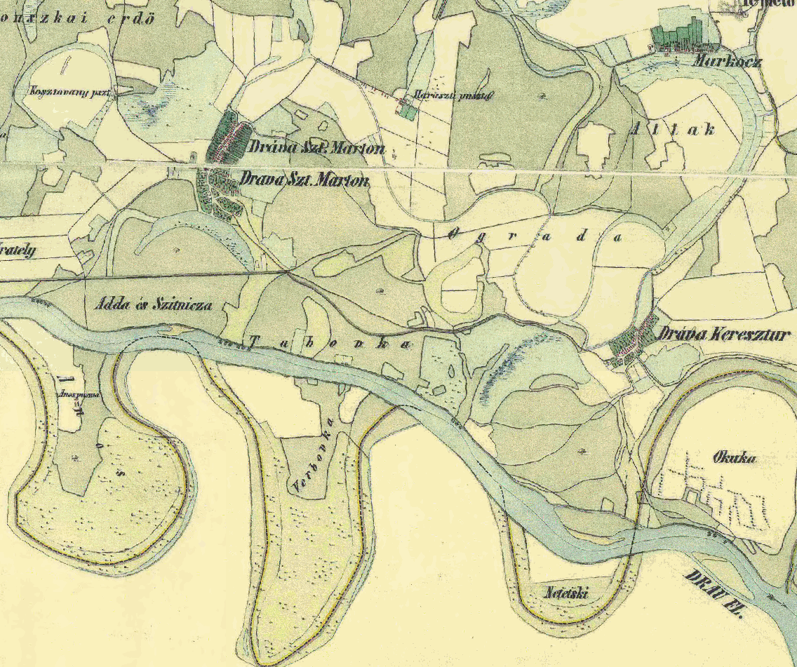 The map of Felsőszentmárton from the Second Military Mapping Survey of Austria Empire